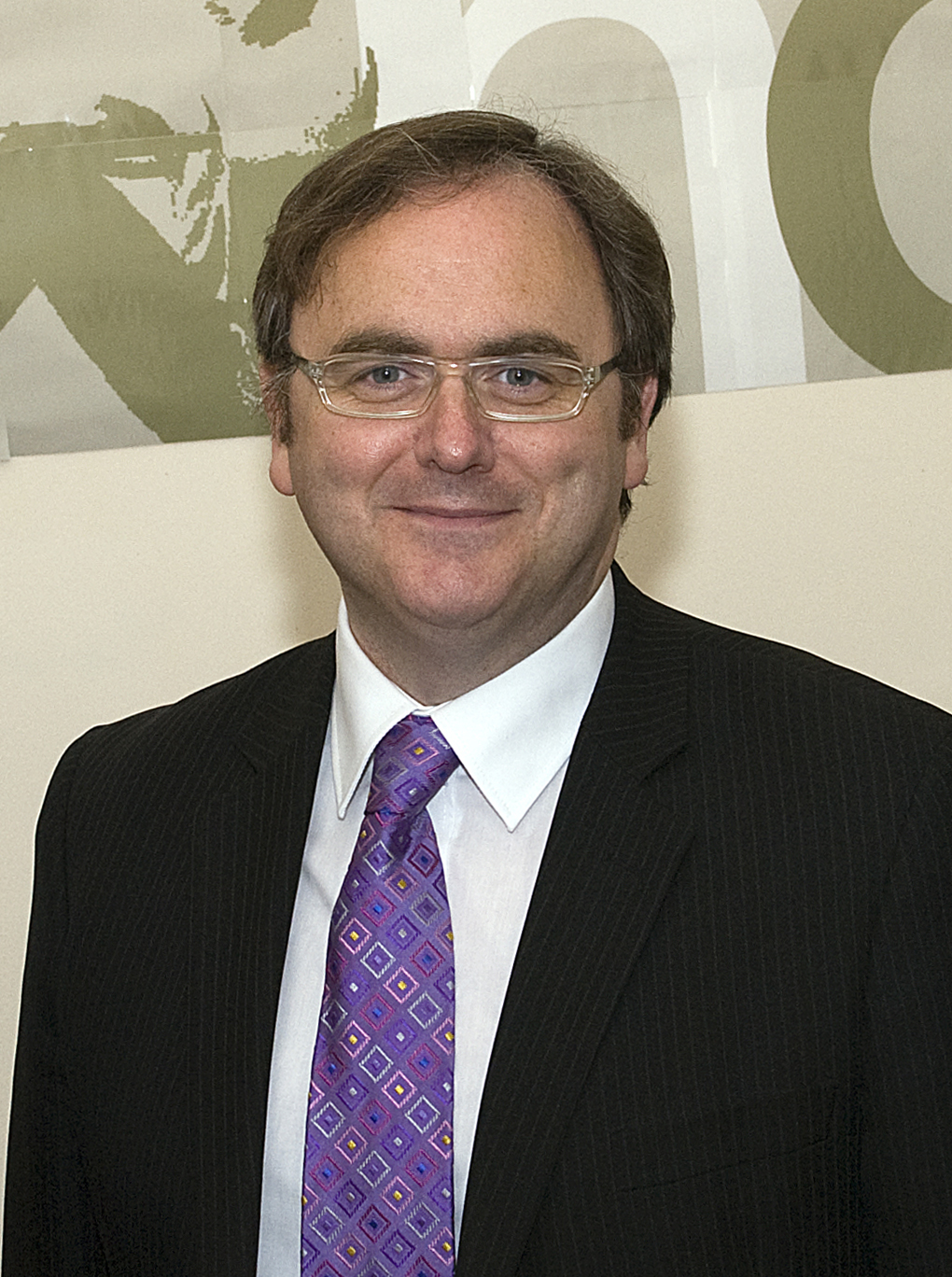 David Cairns (MP for Inverclyde) at the Hobo offices in Greenock.